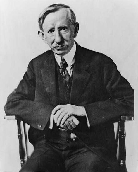 Frank G. Carpenter (1855-1924), an author, photographer